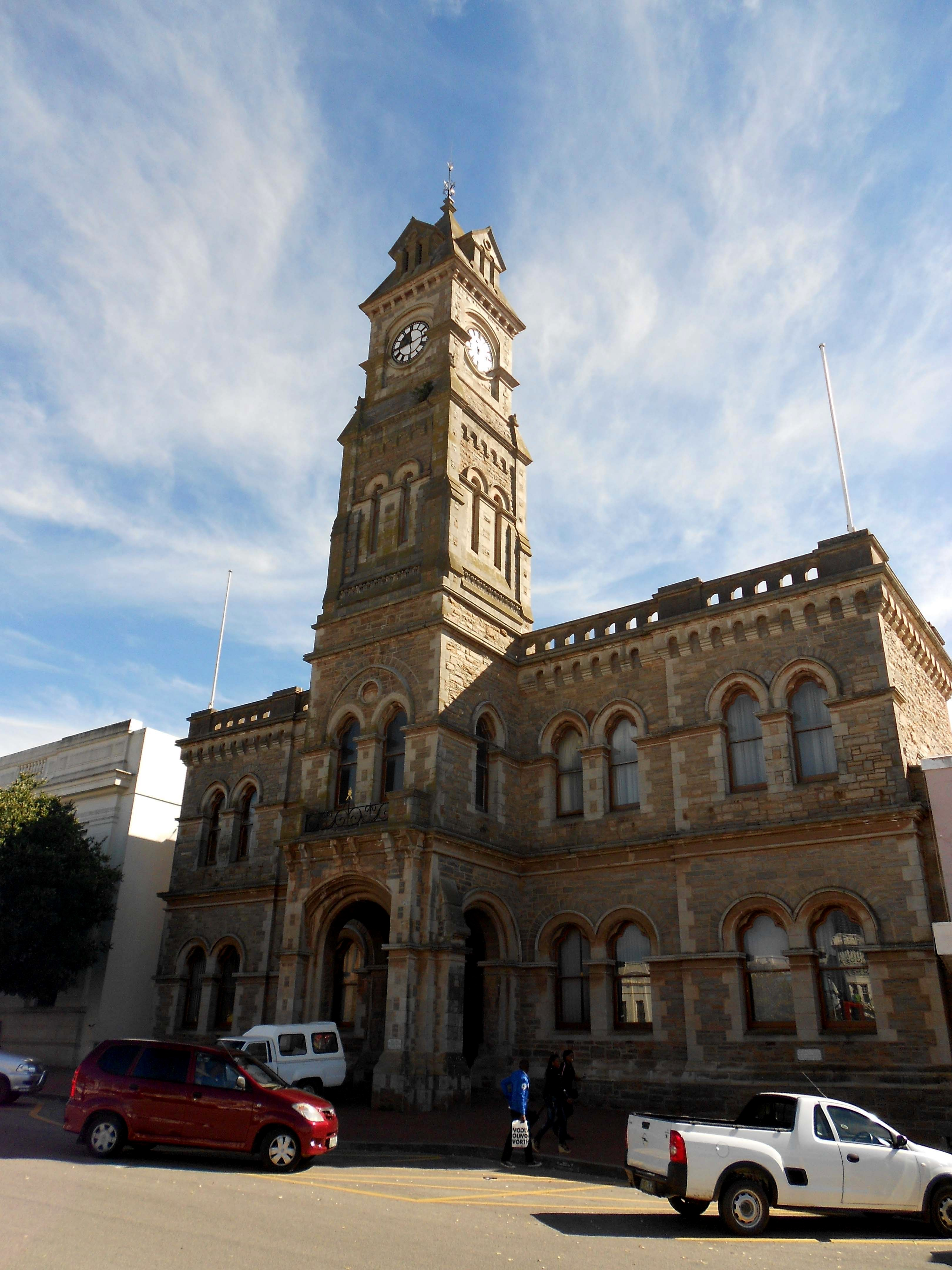 City Hall, 57/59 High Street, Grahamstown This media shows a South African Protected Site with SAHRA file reference 9/2/003/0065.